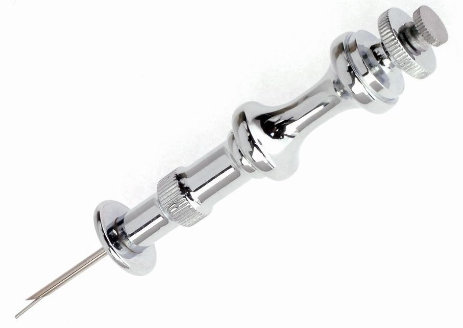 Kassirski Needle for sternal punction